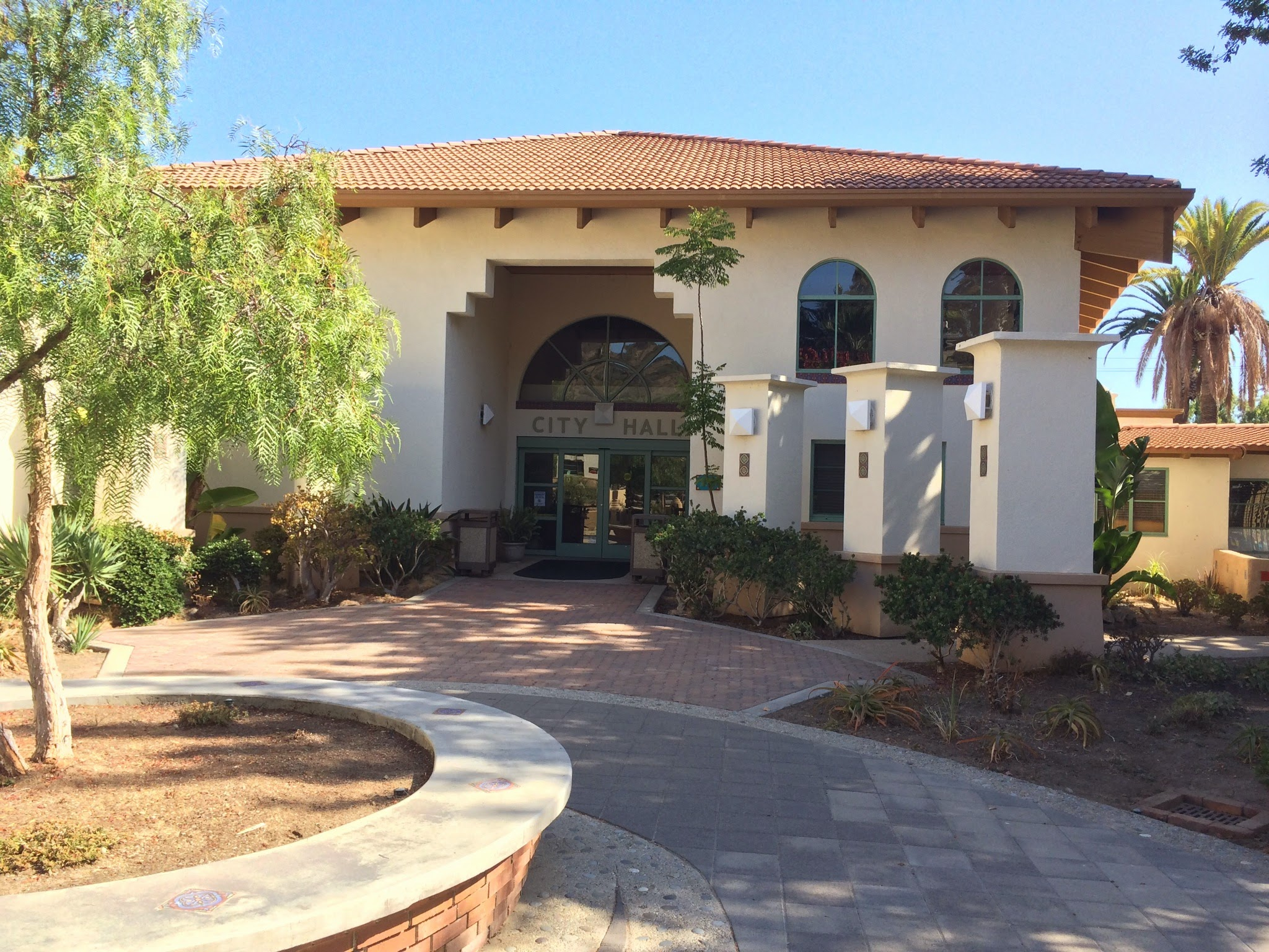 Front entrance to the Avalon City Hall, built in 2004 in Avalon, California